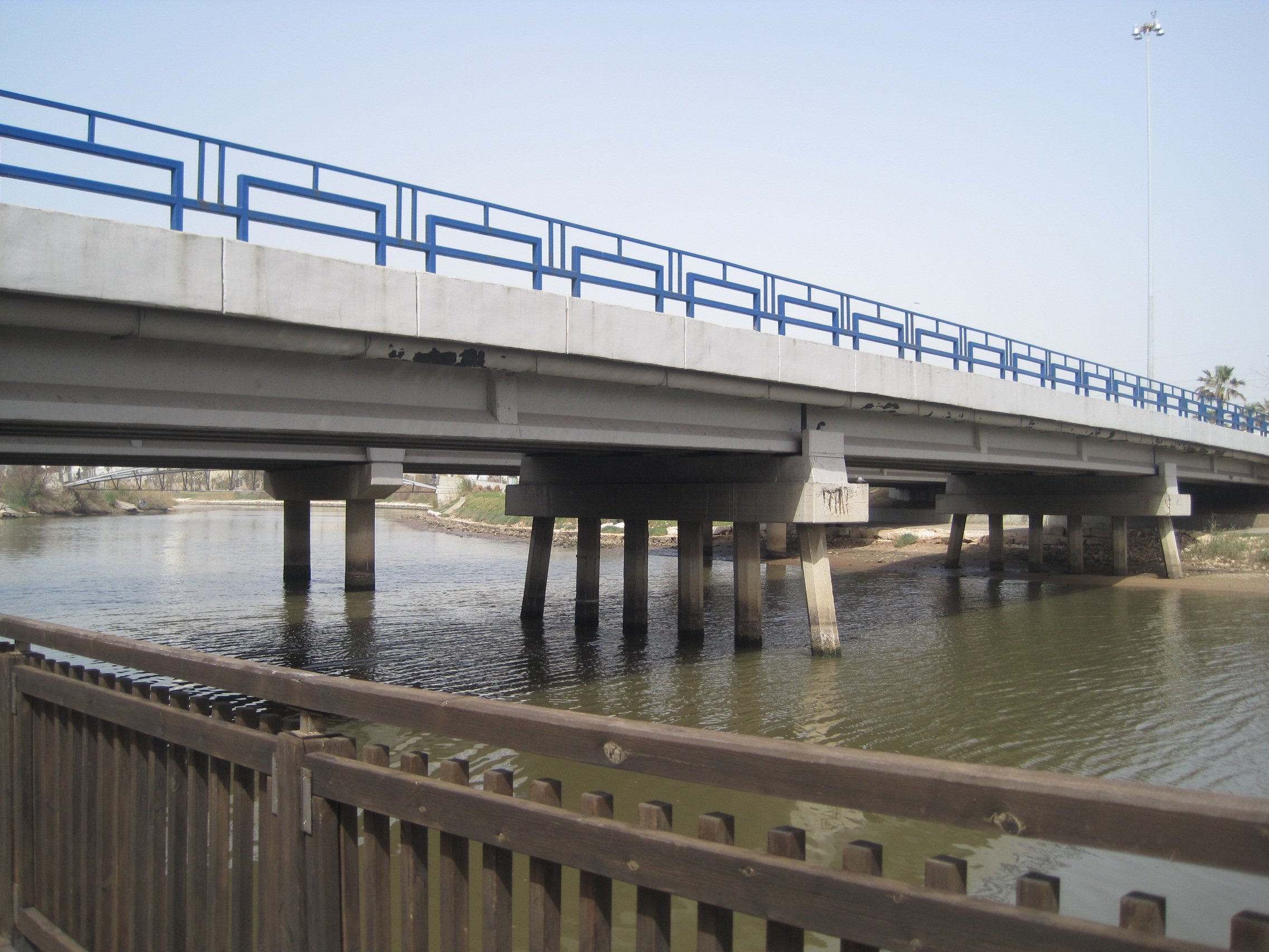 Ben Eliezer bridge